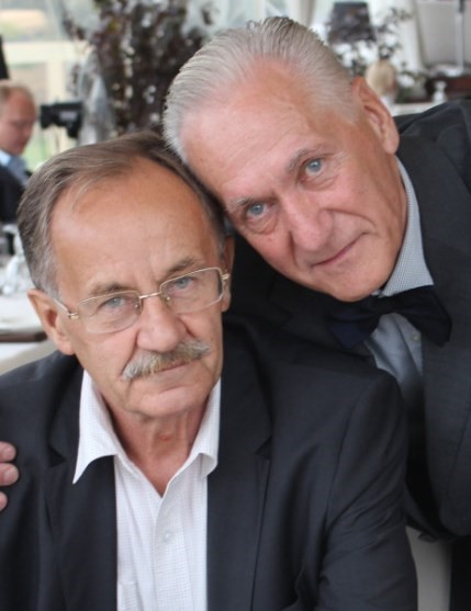 V.I. Kiselev’s older brothers - Oleg Ivanovich Kiselev (on the left) and Vitaly Ivanovich Kiselev (on the right)